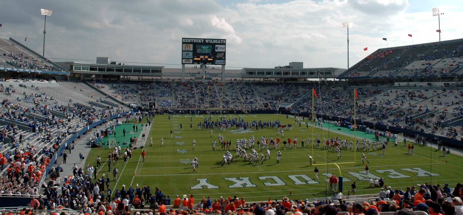 Interior of the University of Kentucky's Commonwealth Stadium in Lexington, Kentucky